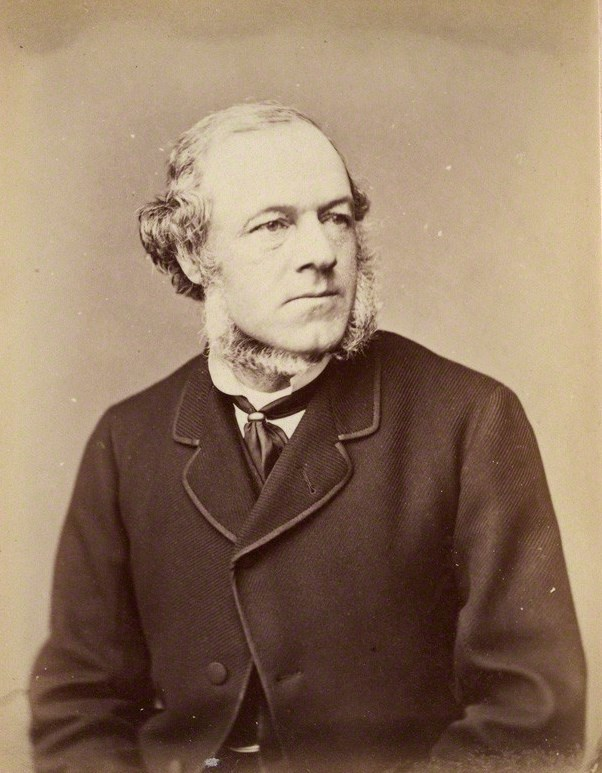 Henry Bruce, 1st Baron Aberdare, albumen print